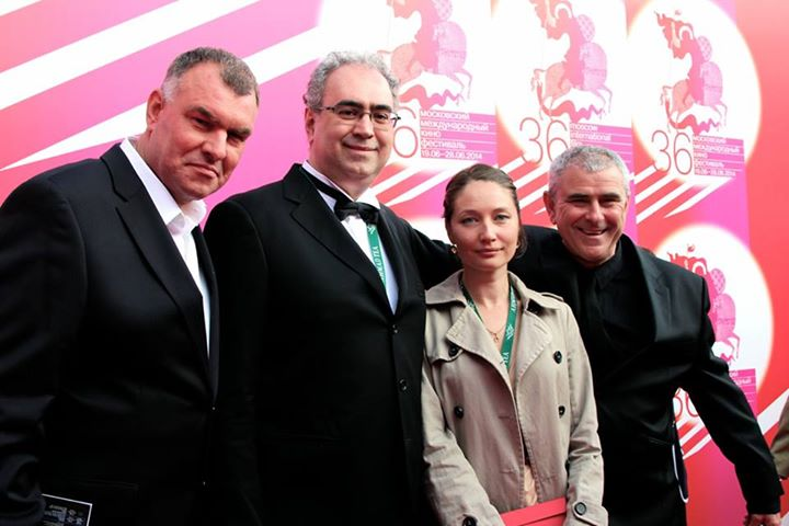 Жюри ММКФ (документальная программа)